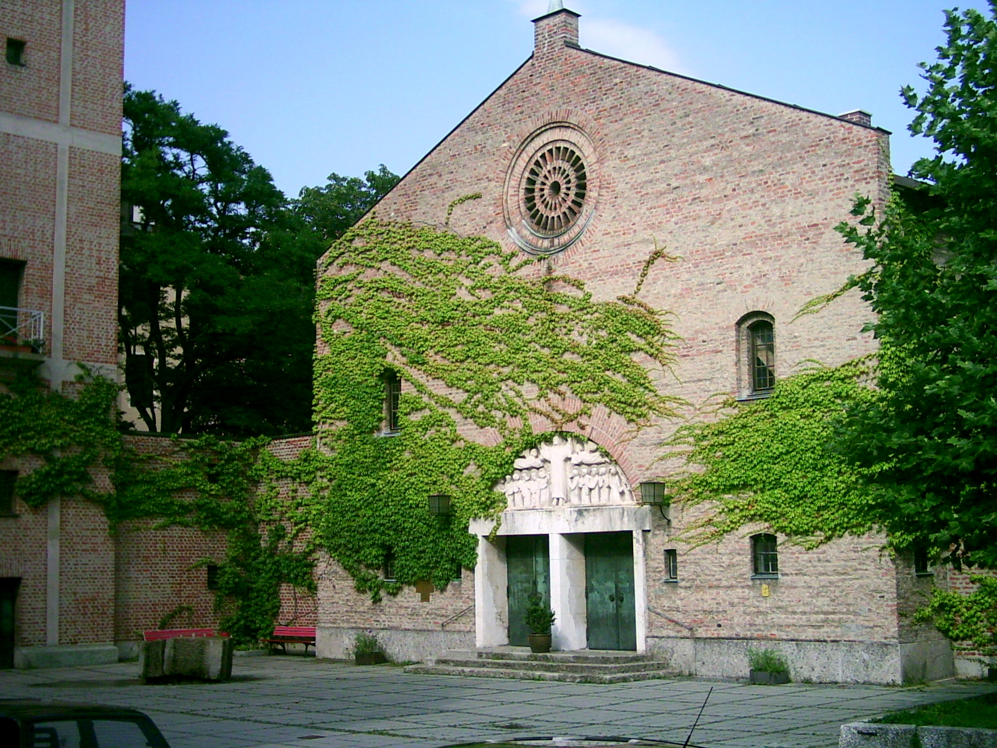 The Himmelfahrtskirche in Munich-Sendling (Kidlerstraße).